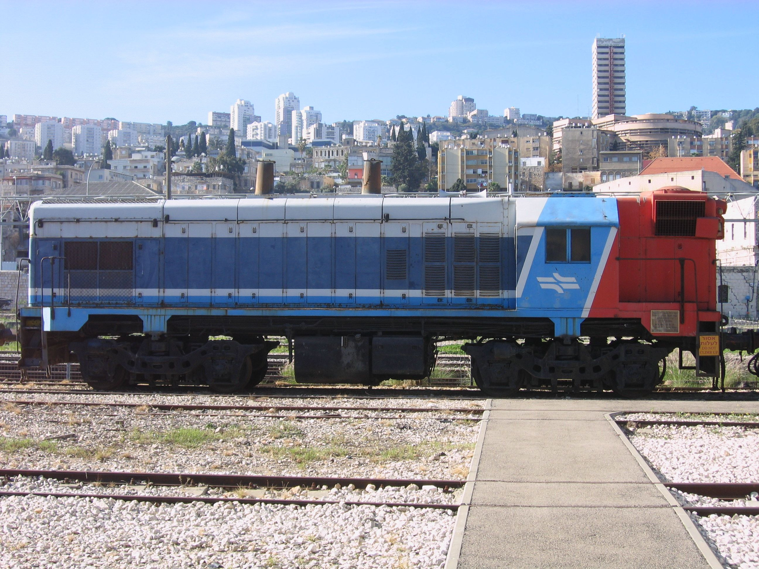 Israel Railway Museum, Haifa: Diesel-electric Bo'Bo' locomotive # 107 of 1954